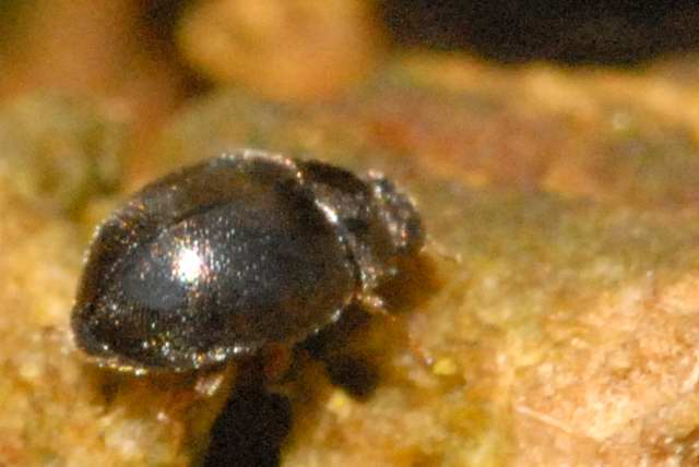 Stilbus atomarius from Commanster, Belgian High Ardennes .